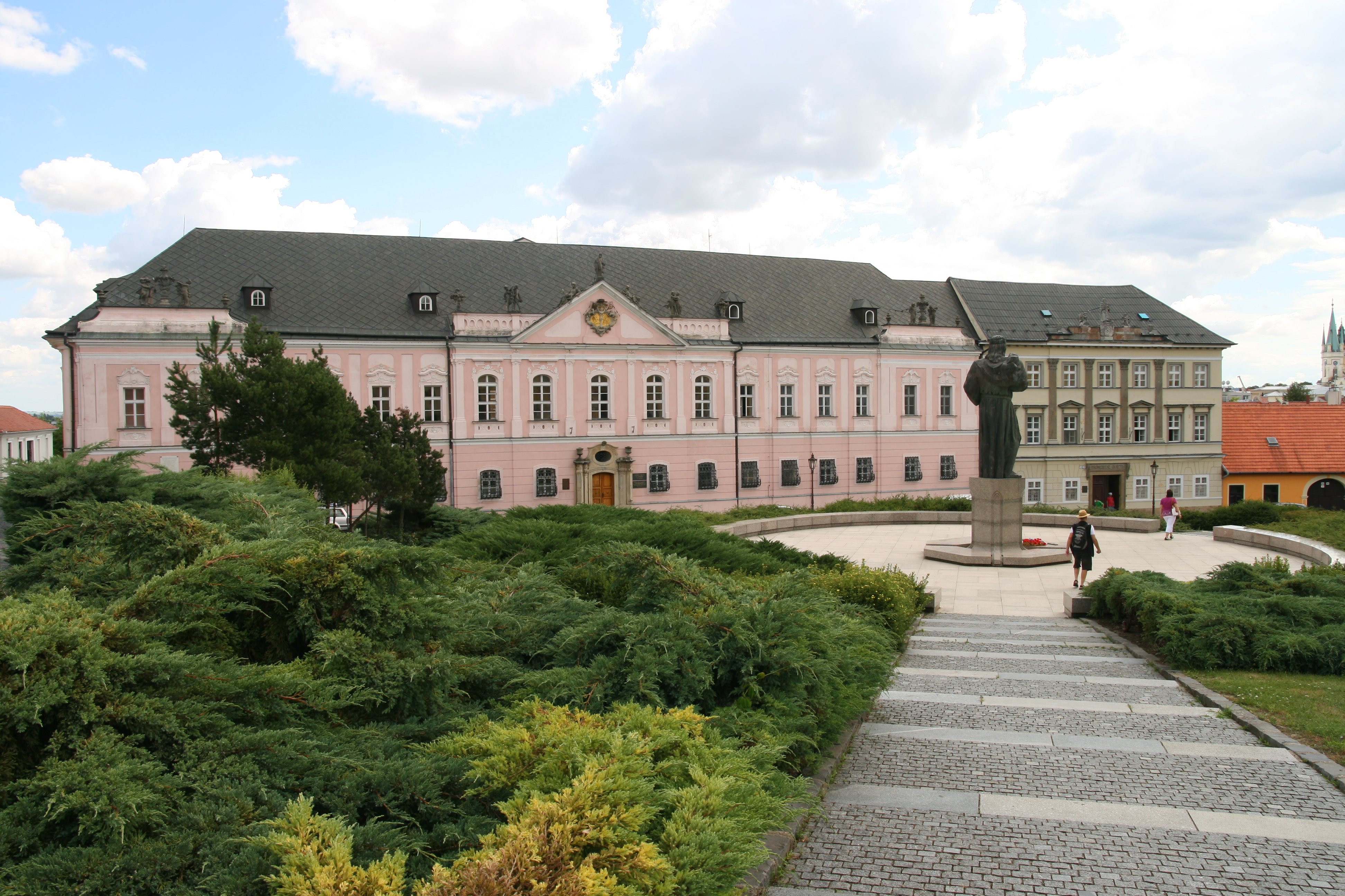 Grand Seminary in Nitra.